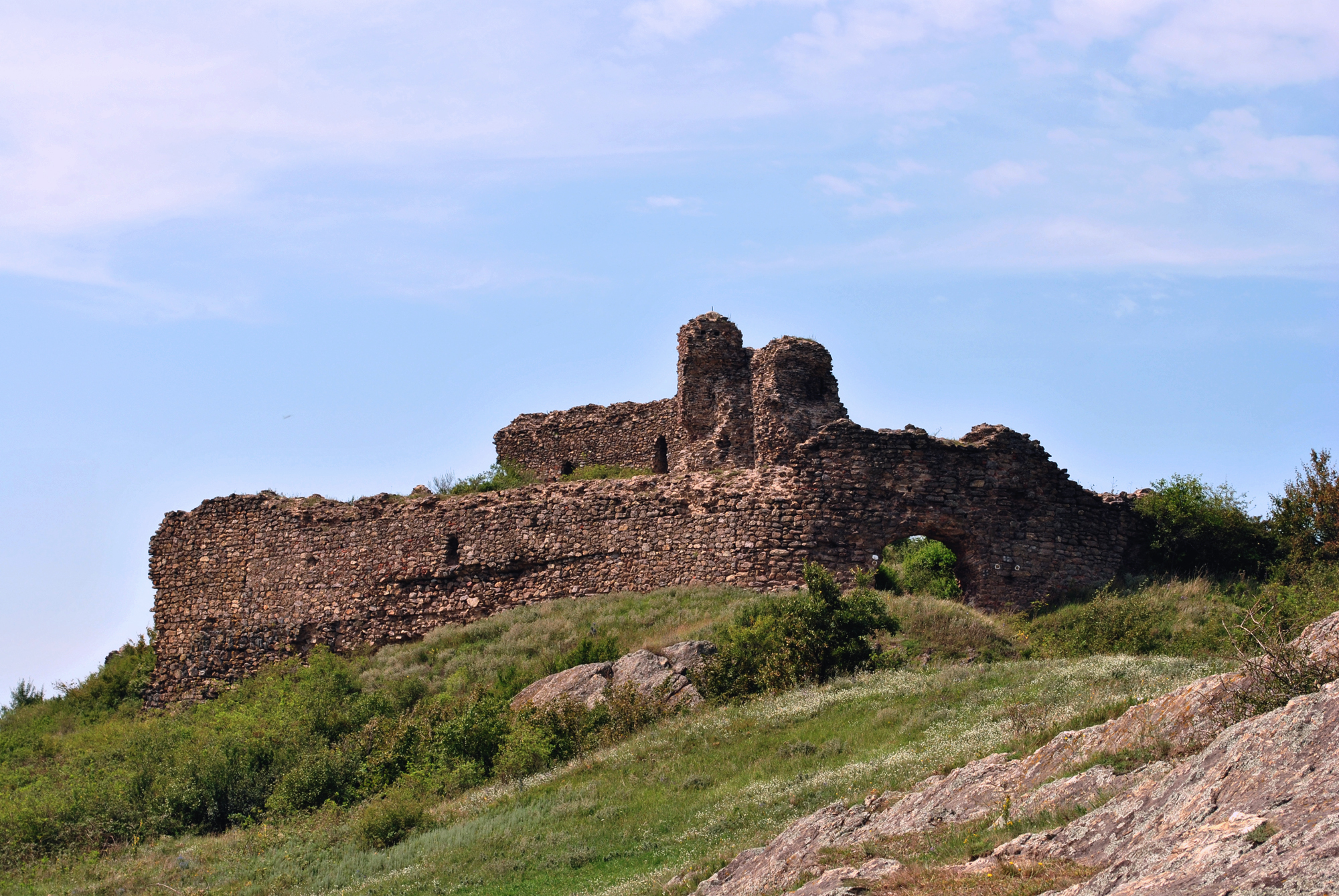 Cetatea Șiria (ruine)